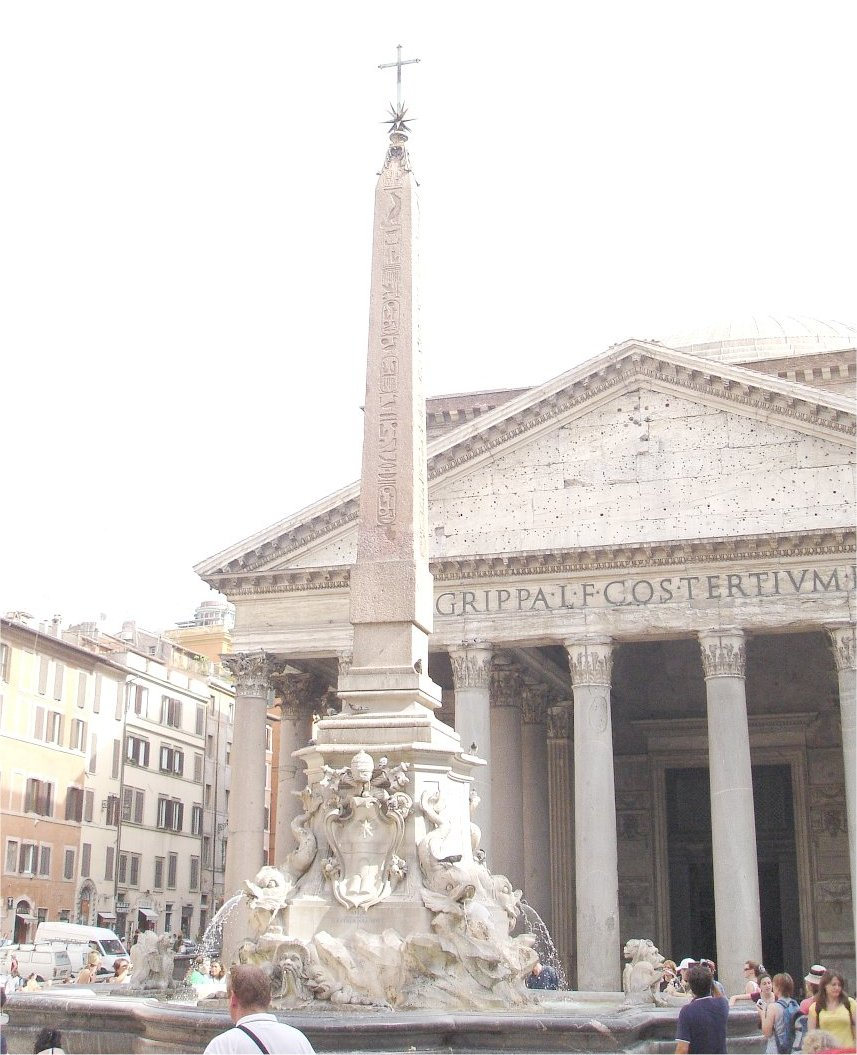 Obelisk Macuteo in front of Pantheon in Rome.